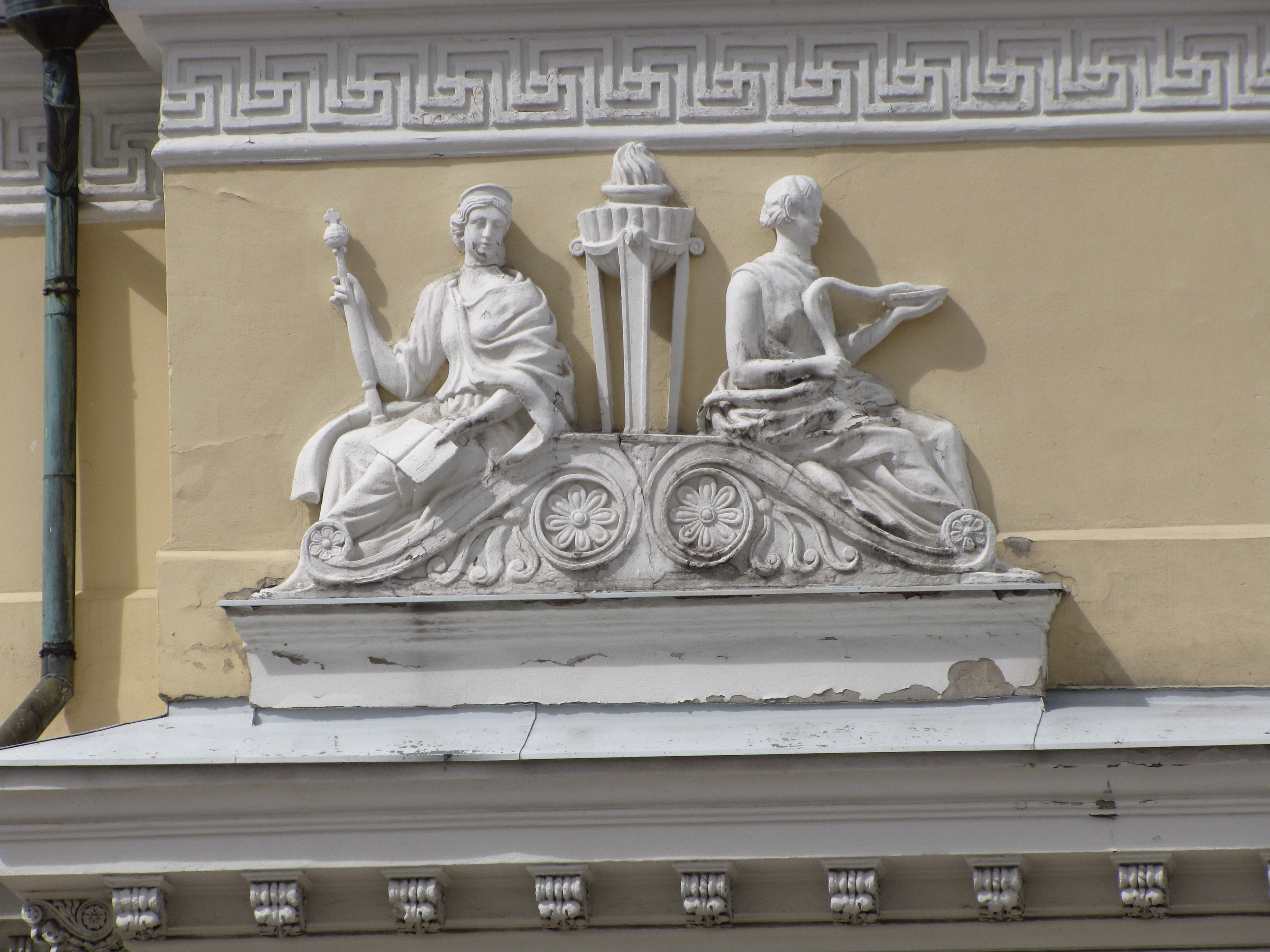 Philosophy and medicine reliefs on the facade of the National Library of Finland, sculpted by Carl Magnus Mellgren (1806 - 1886). The figures represent two of the four faculties of the University of Helsinki at the time.